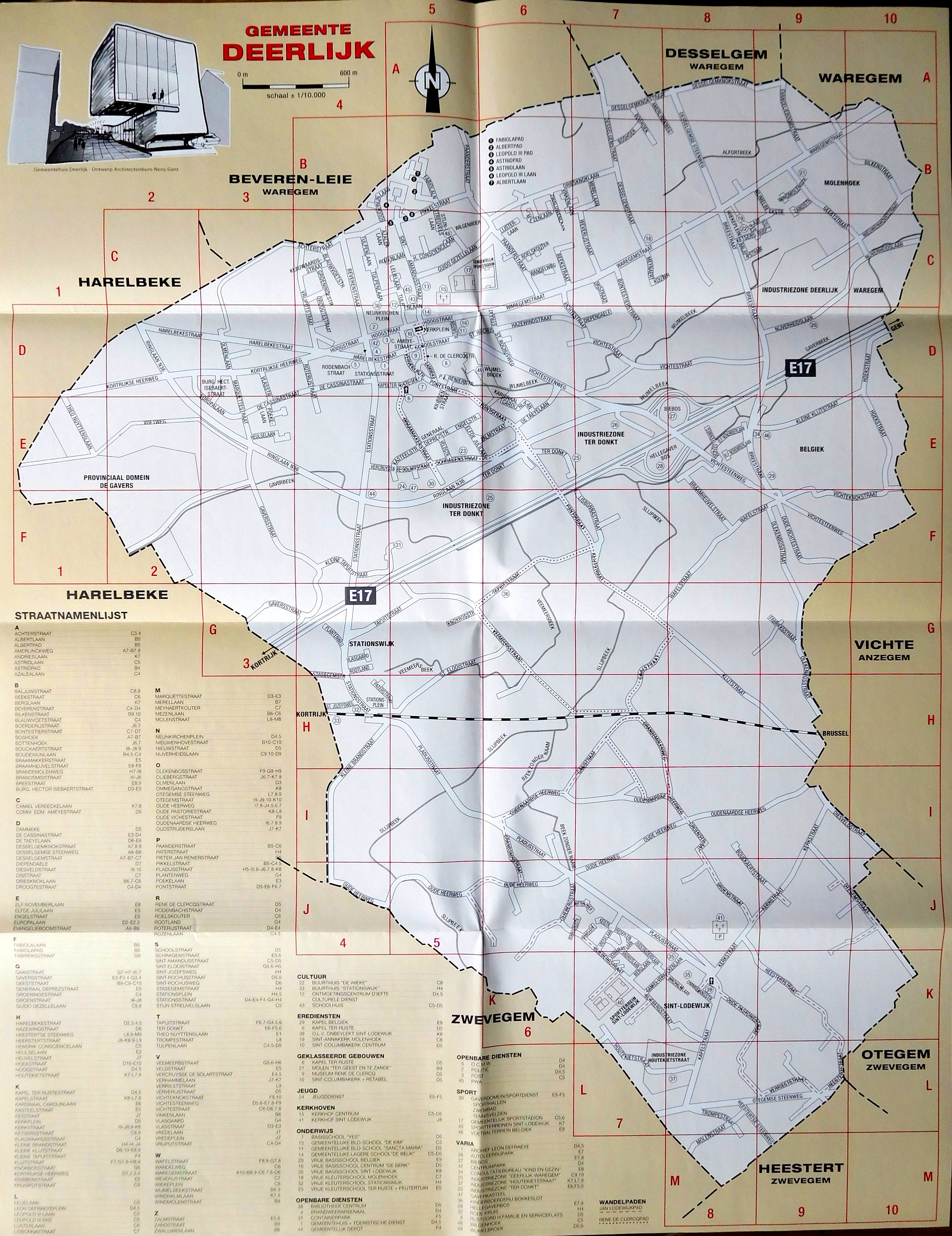 Municipal map of Deerlijk anno 2010